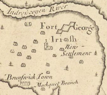 Fort George, Brunswick, Maine by Cyprian Southack, 1720 map inset